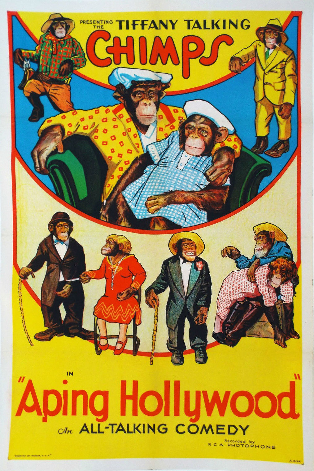 Poster for the 1931 film Aping Hollywood.